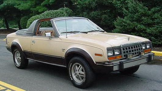 1981 AMC (American Motors Corporation) Eagle (All Wheel Drive) convertible - beige